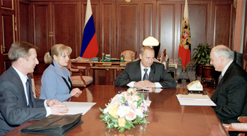 THE KREMLIN, MOSCOW. President Putin with Security Council Secretary Sergei Ivanov, to the left, Vladimir Kalamanov, Presidential Envoy for Human Rights and Freedoms in Chechnya, and Ella Pamfilova, member of the Public Commission on Human Rights in Chechnya.